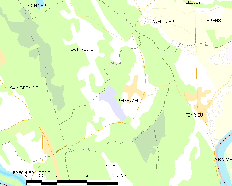 Map of French commune: Prémeyzel Map commune FR insee code 01310.png